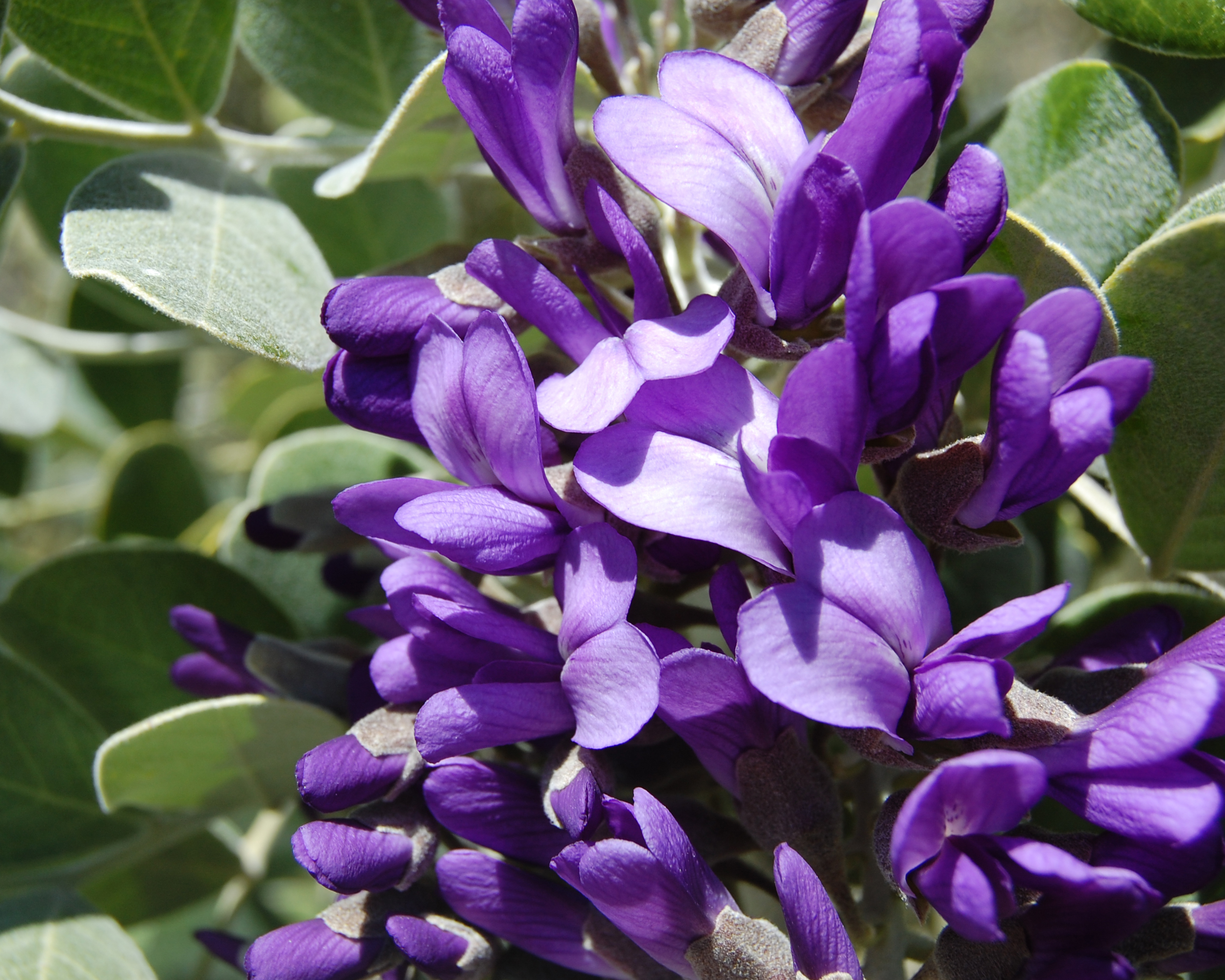 Calia secundiflora flowers, Old Tucson, Arizona, 32°14'44"N 111°10'02"W, 878 m altitude.